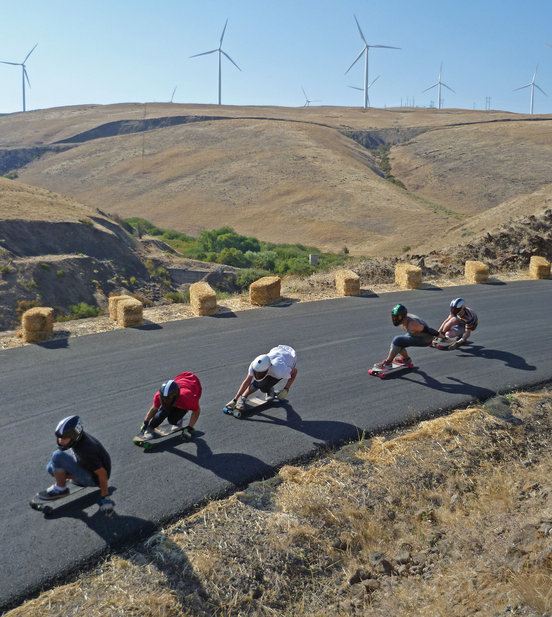 Maryhill Fall Freeride 2012- spaghettii corners longboarding